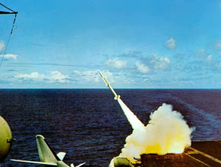 Launch of an RIM-2 Terrier missile from the U.S. Navy aircraft carrier USS America (CVA-66), in 1965.